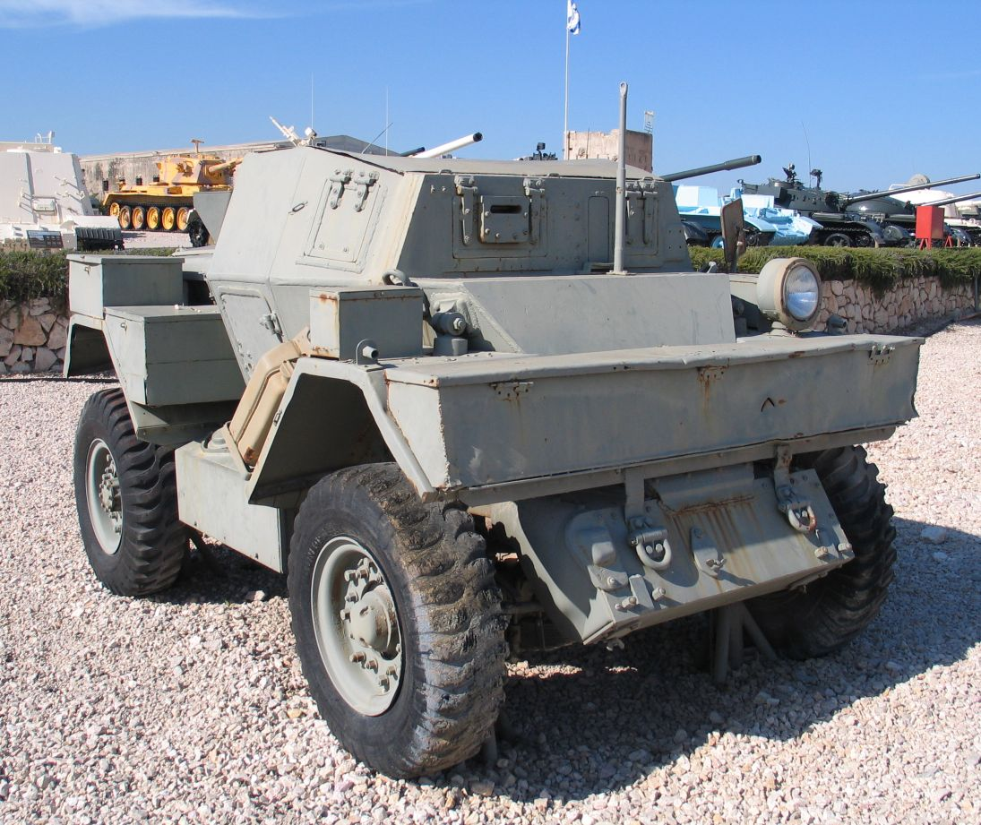 Description: Ford Lynx scout car in Yad la-Shiryon Museum, Israel. 2005. Source: Photo by me, User:Bukvoed.